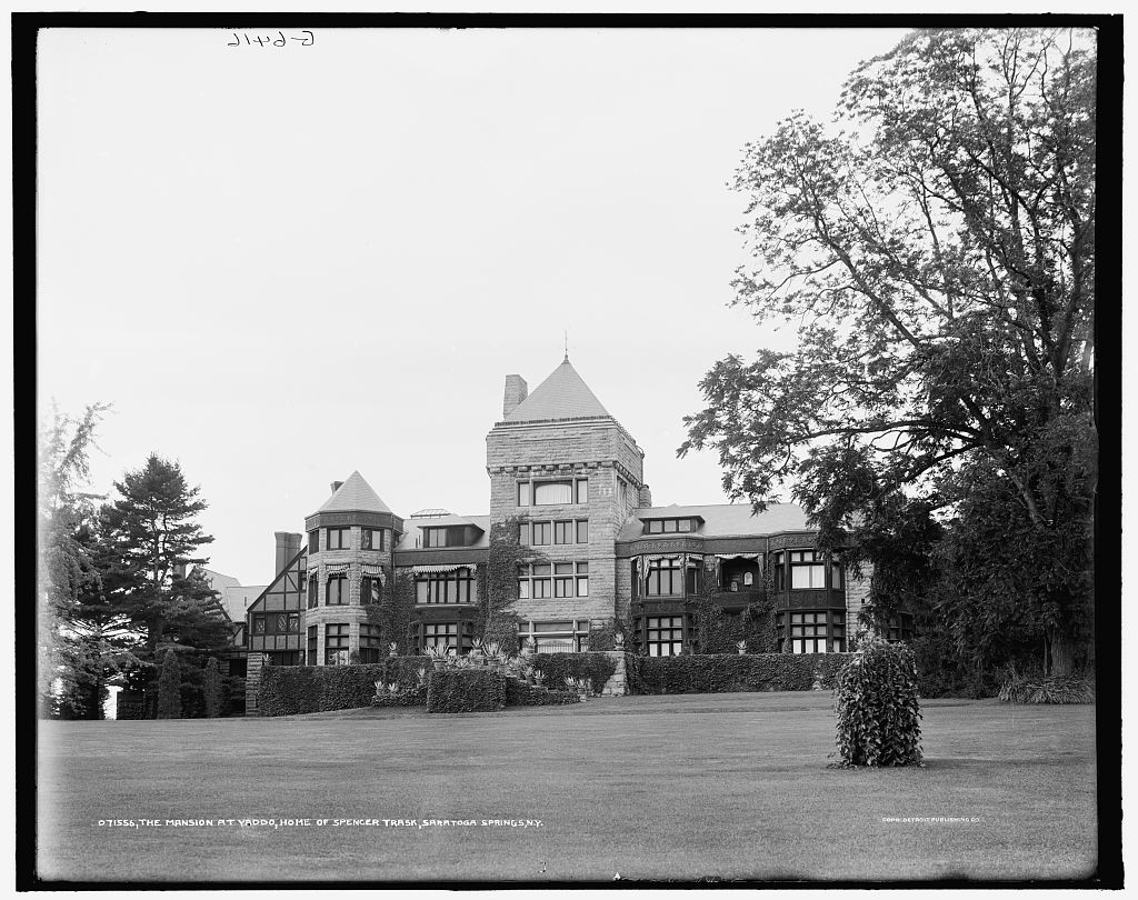 negative titled "The Mansion at Yaddo, home of Spencer Trask, Saratoga Springs, N.Y."